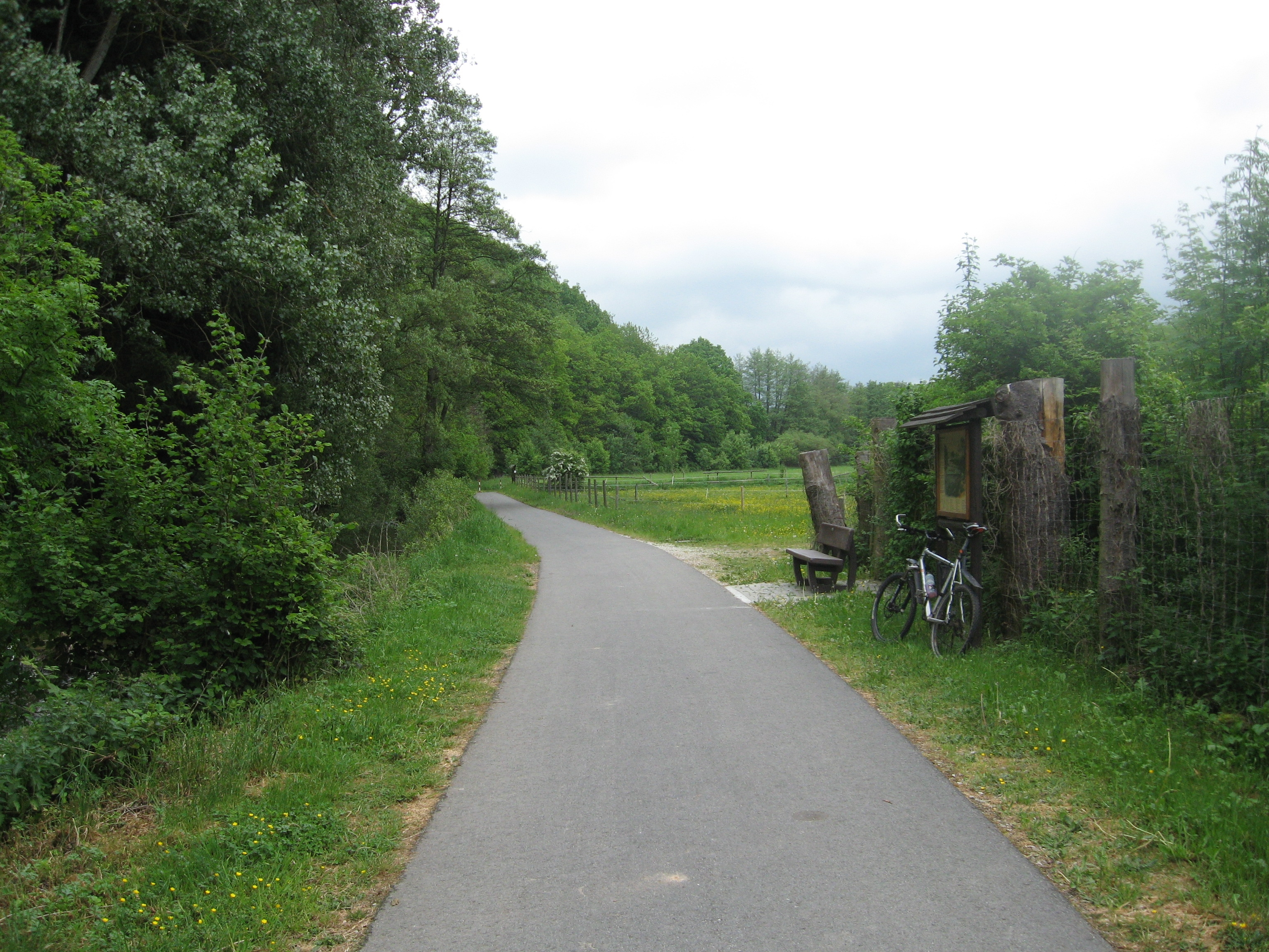 Cycling way Schinderhannes-Soonwald-Radweg near Gemünden/Hunsrück in Germany